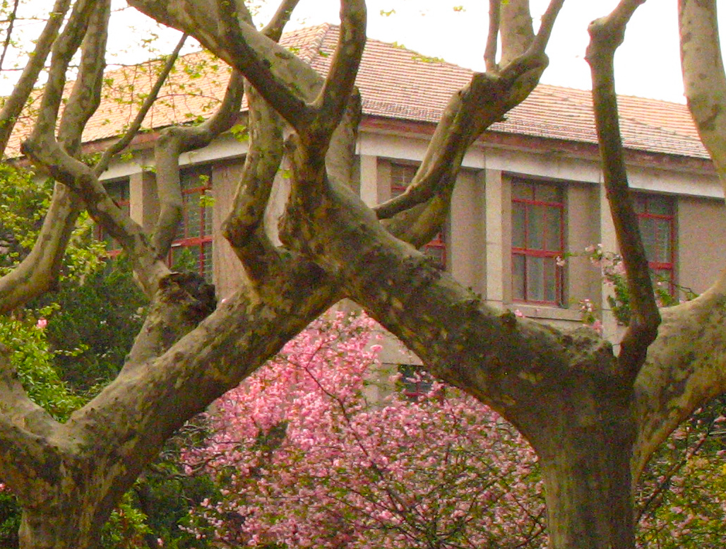 Old_buildings_xjtu_detail